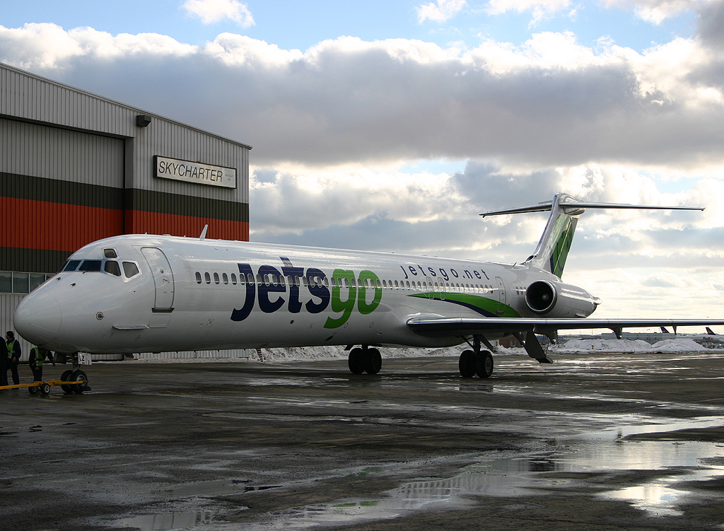 Jetsgo MD-83 preparing to be towed into a hangar at Toronto Pearson Int'l Airport.